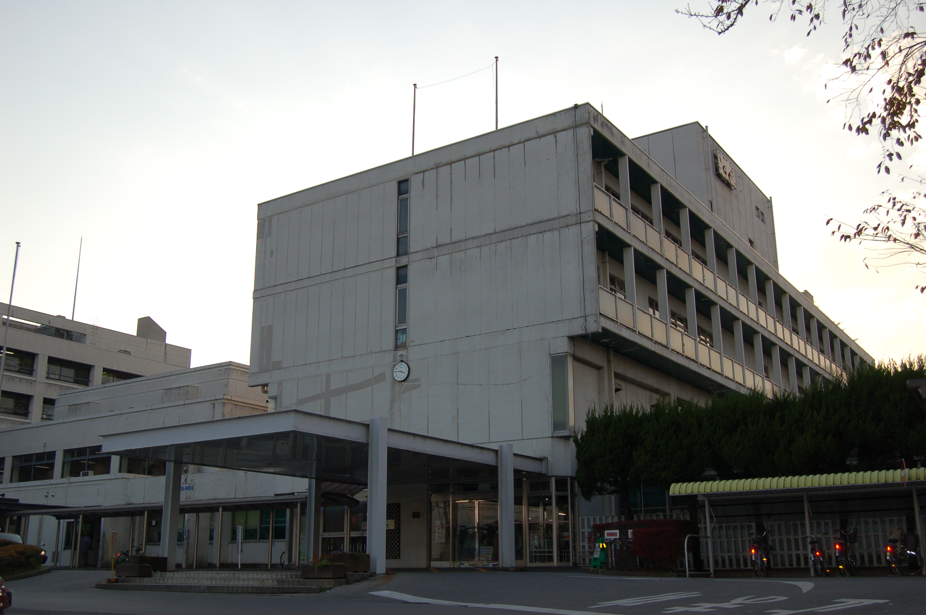 Oyama municipal hospital,Oyama city,Tochigi,Japan